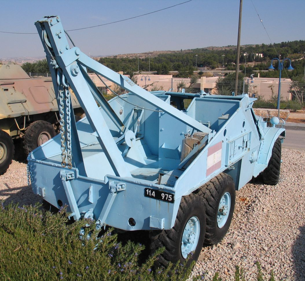 Description: BTR-152-based ARV in Yad la-Shiryon Museum, Israel. 2005. The vehicle was used by the South Lebanon Army. Source: Photo by me, User:Bukvoed